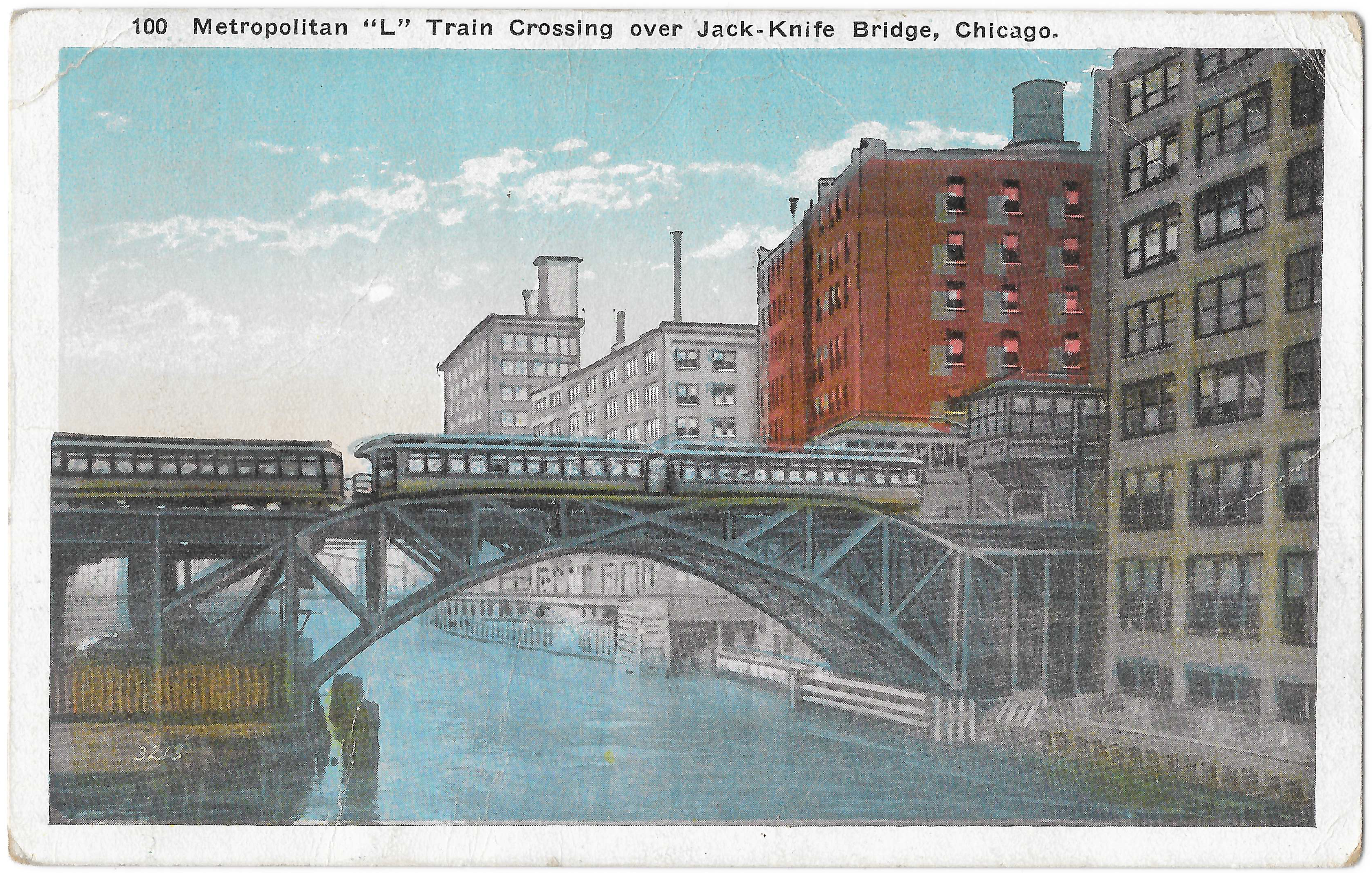 Postcard showing the Chicago "L" crossing Jack-Knife Bridge in Chicago, IL